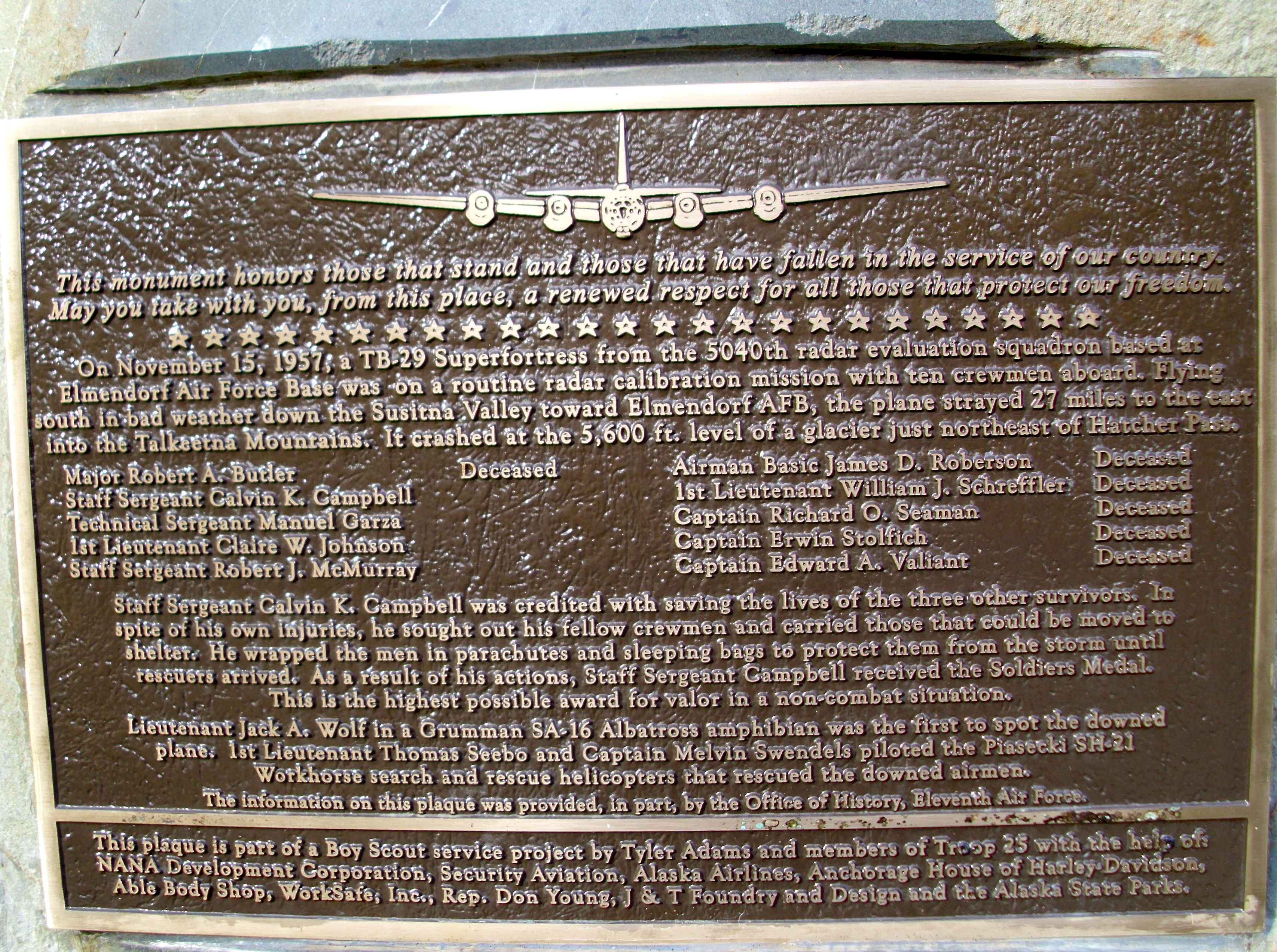 detail of memorial for victims of the crash of a TB-29 Superfortress, Alaska Veterans Memorial